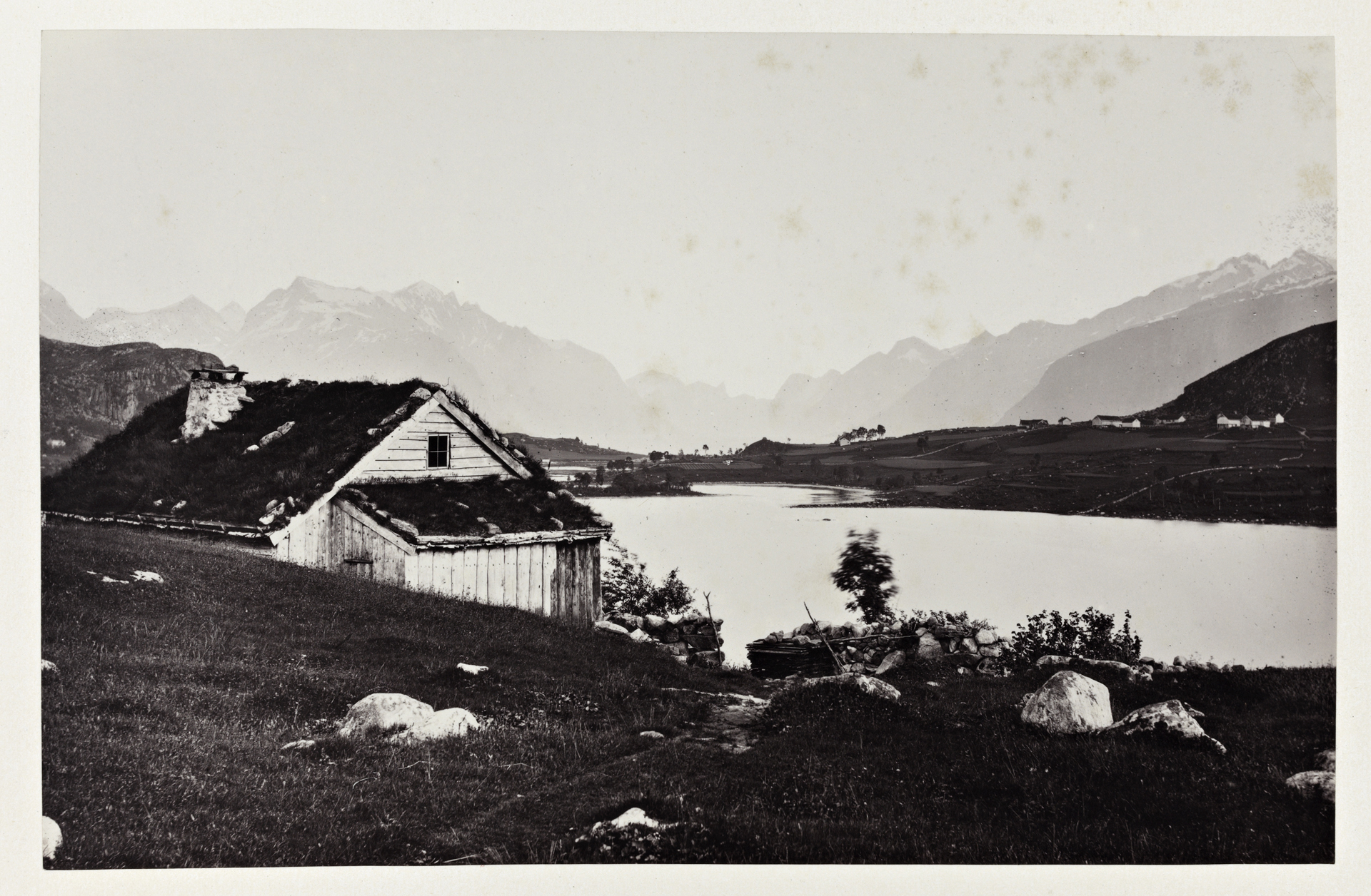 Tittel / Title: s. 20. Near Aalsund Motiv / Motif: Albuminkopi. Dato / Date: 1869 Fotograf / Photographer: Edward Backhouse Mounsey (1840-1911) Sted / Place: Møre og Romsdal Eier / Owner Institution: Nasjonalbiblioteket / National Library of Norway Lenke / Link: Bildesignatur / Image Number: bldsa_Alb_BH023